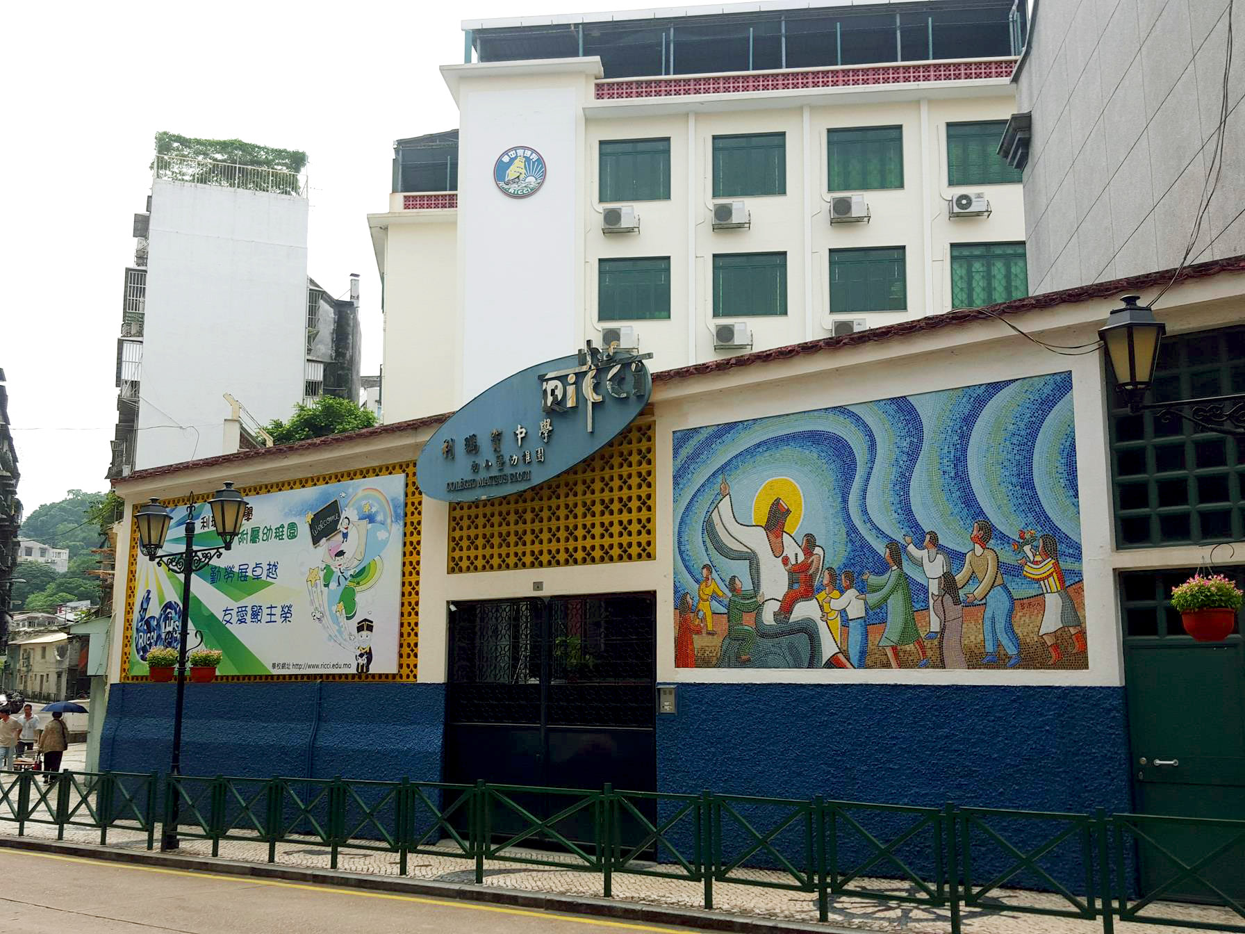 Ricci High School